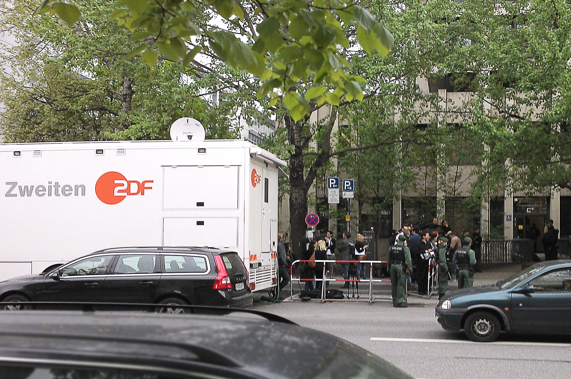 Before the NSU trial (first day) in Nymphenburger Straße, Munich.